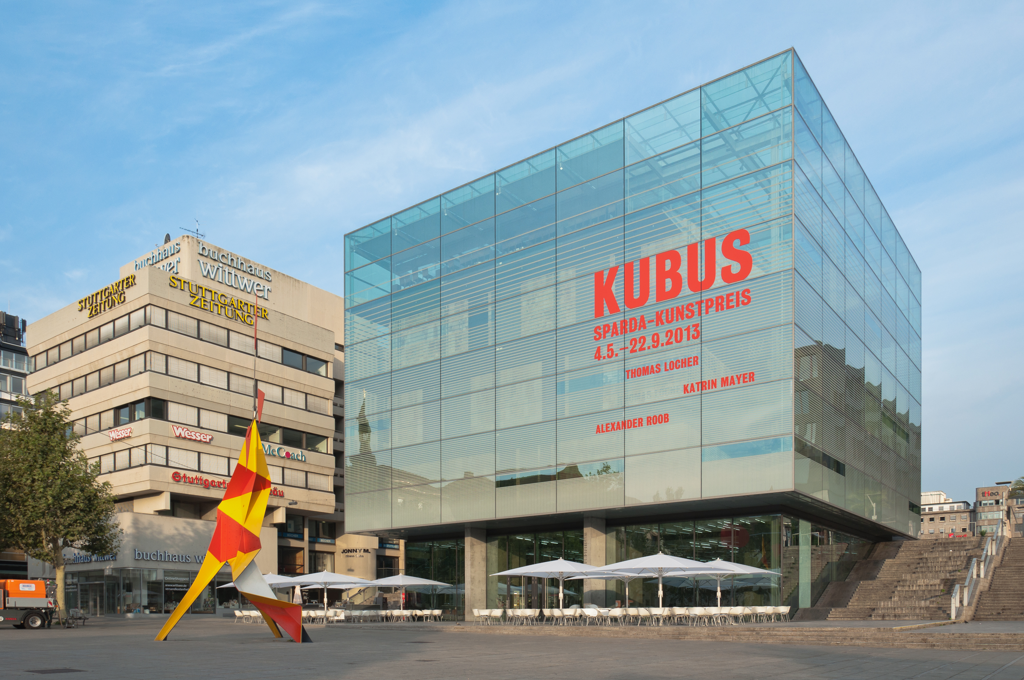 Kunstmuseum Stuttgart (Modern Art Museum) in morning light.